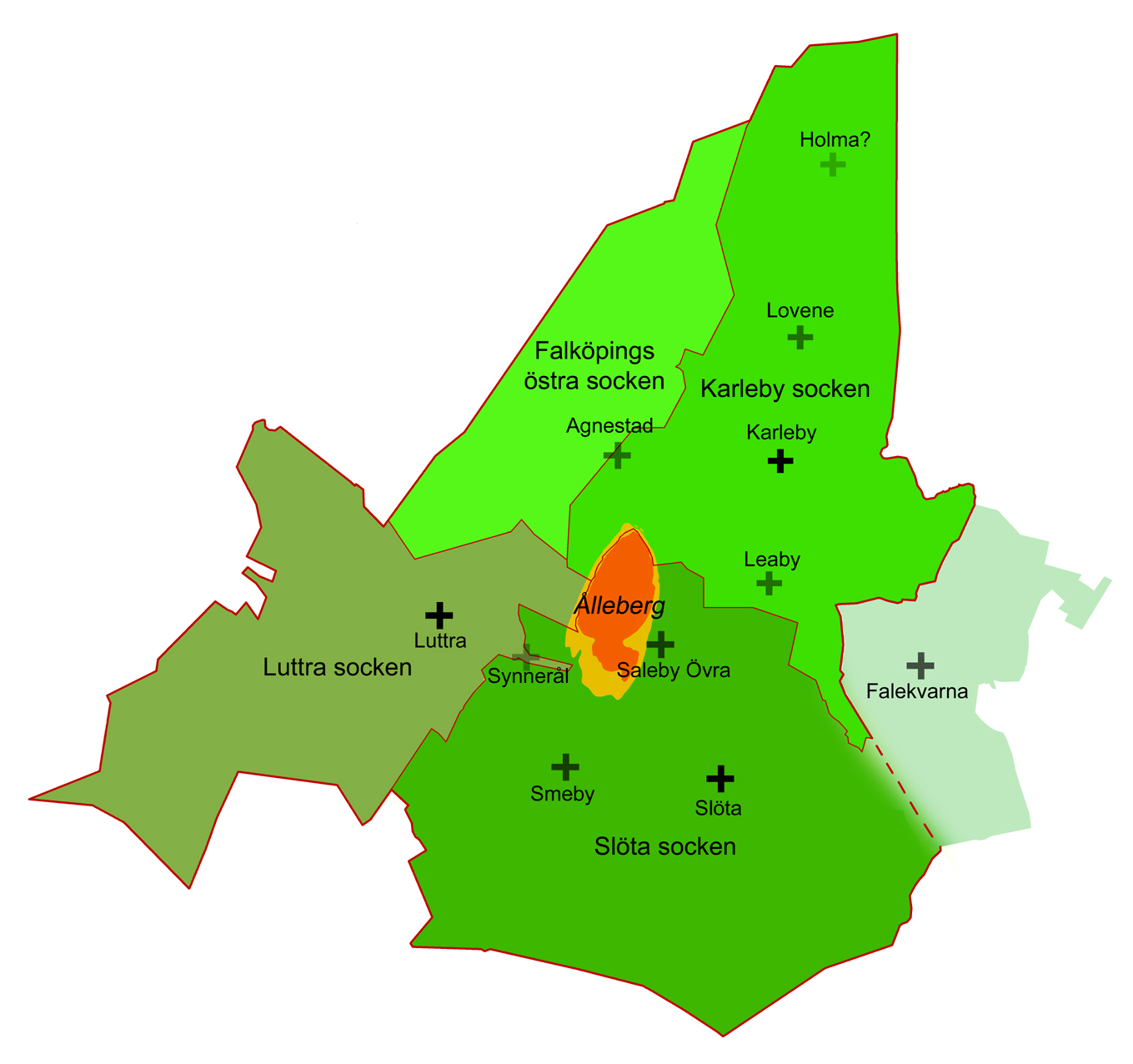 Map over the parishes in the Mediaeval Ålleberg farthing (Ållebergs fjärding) in Vartofta hundred, Västergötland, Sweden.